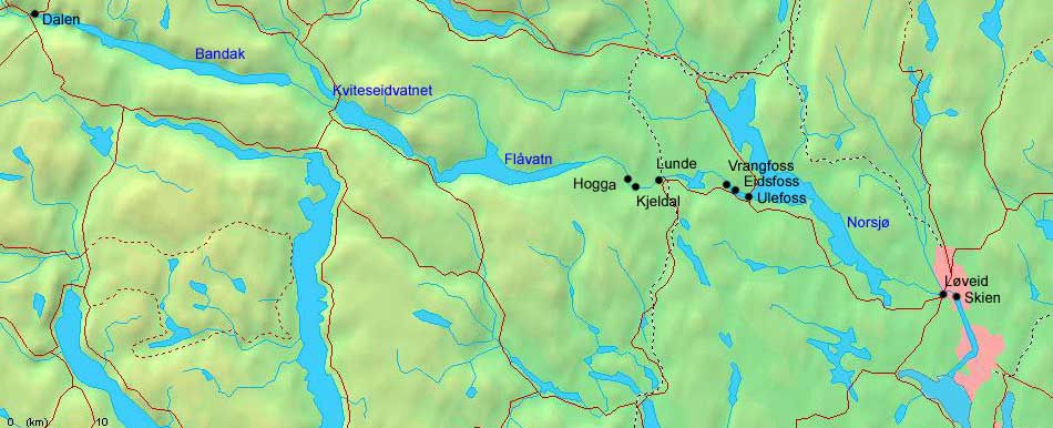 map of the telemarkkanal